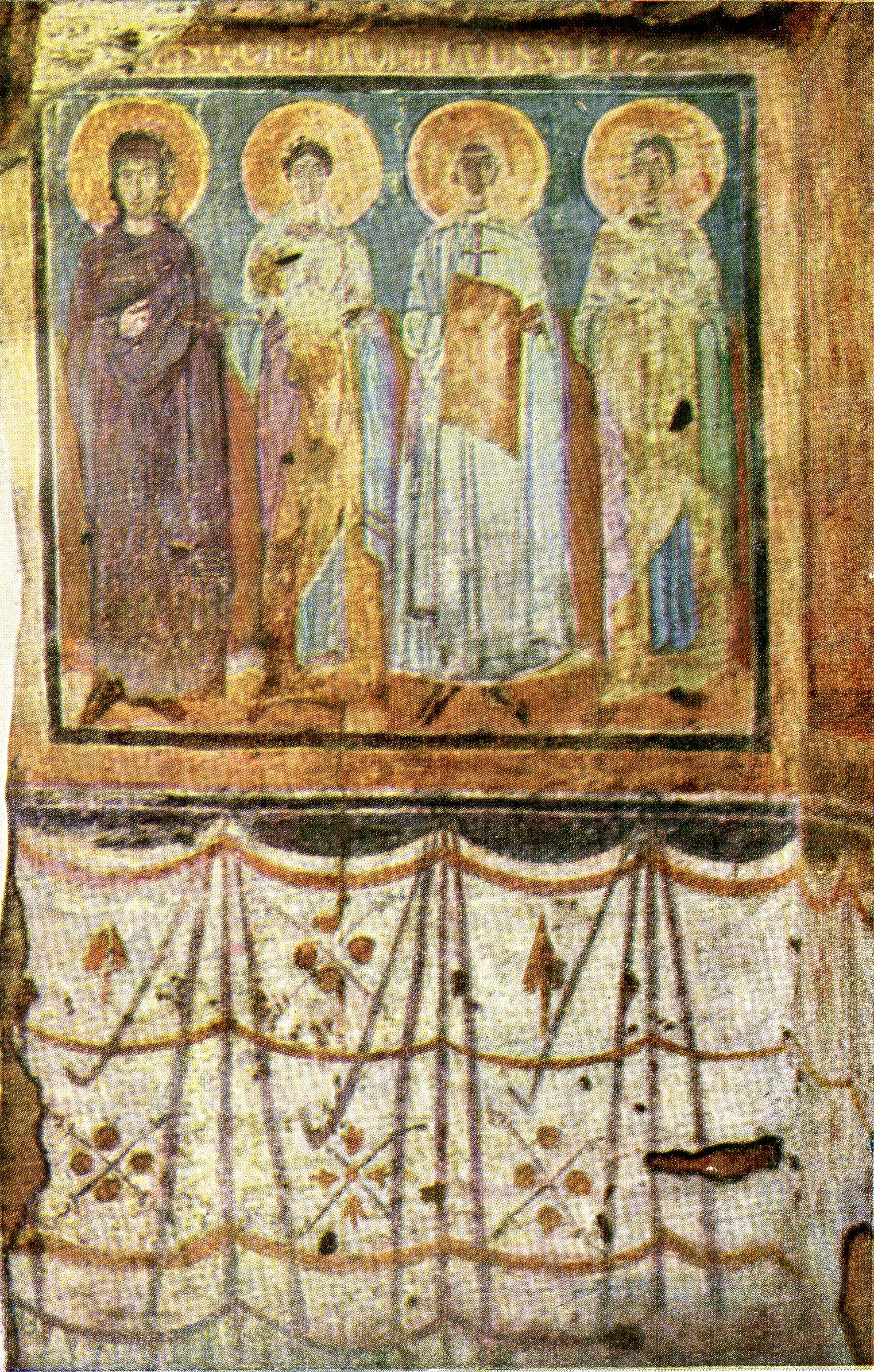 Four holy martyrs, a Byzantine fresco from the Santa Maria Antiqua church of Rome